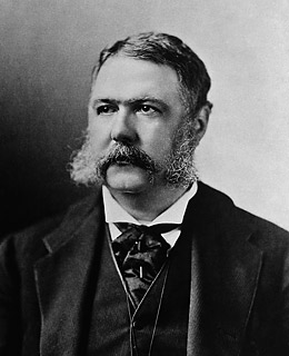 Chester A Arthur.